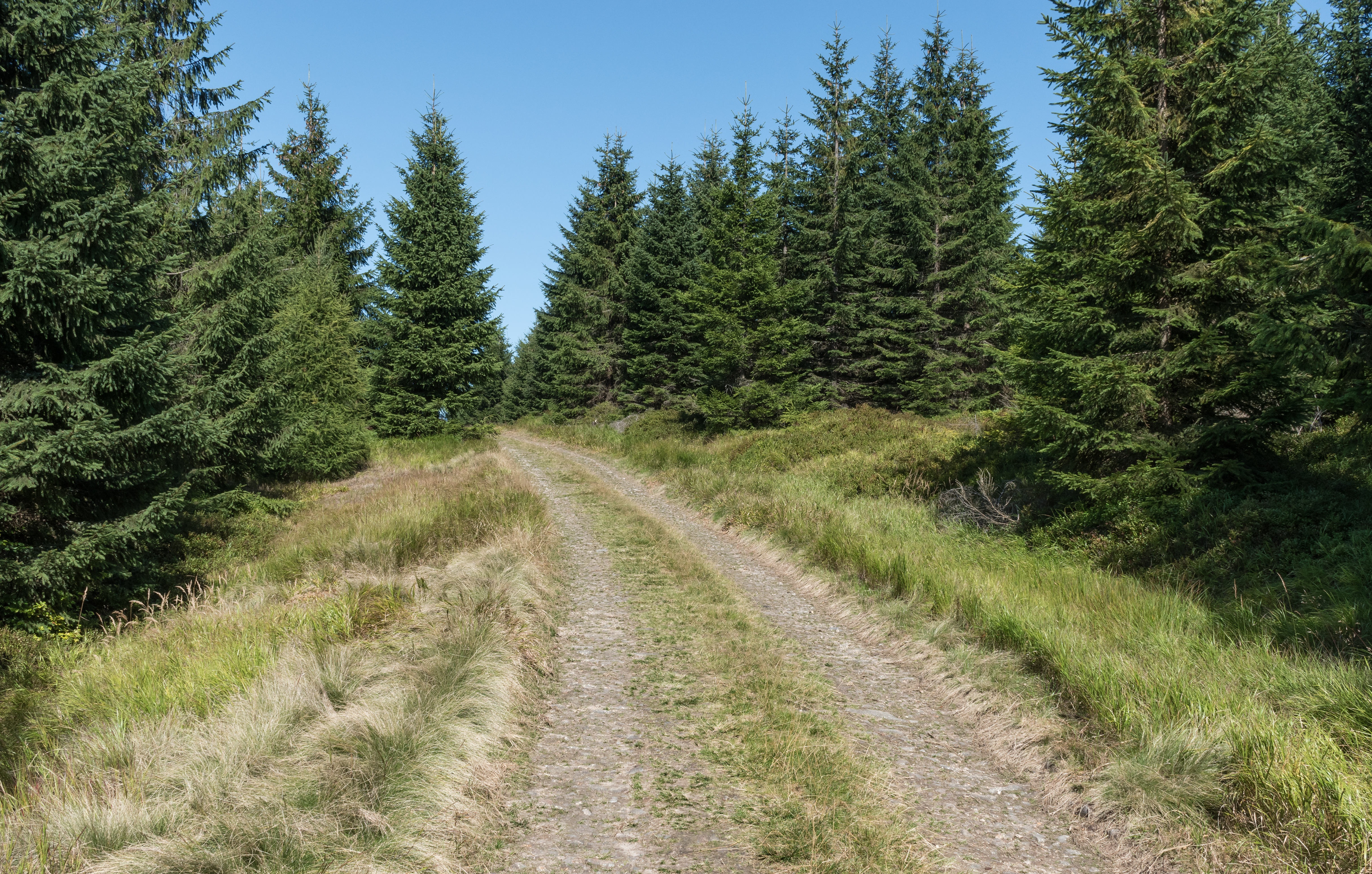 Marianne Road, Bialskie Mountans, Sudetes